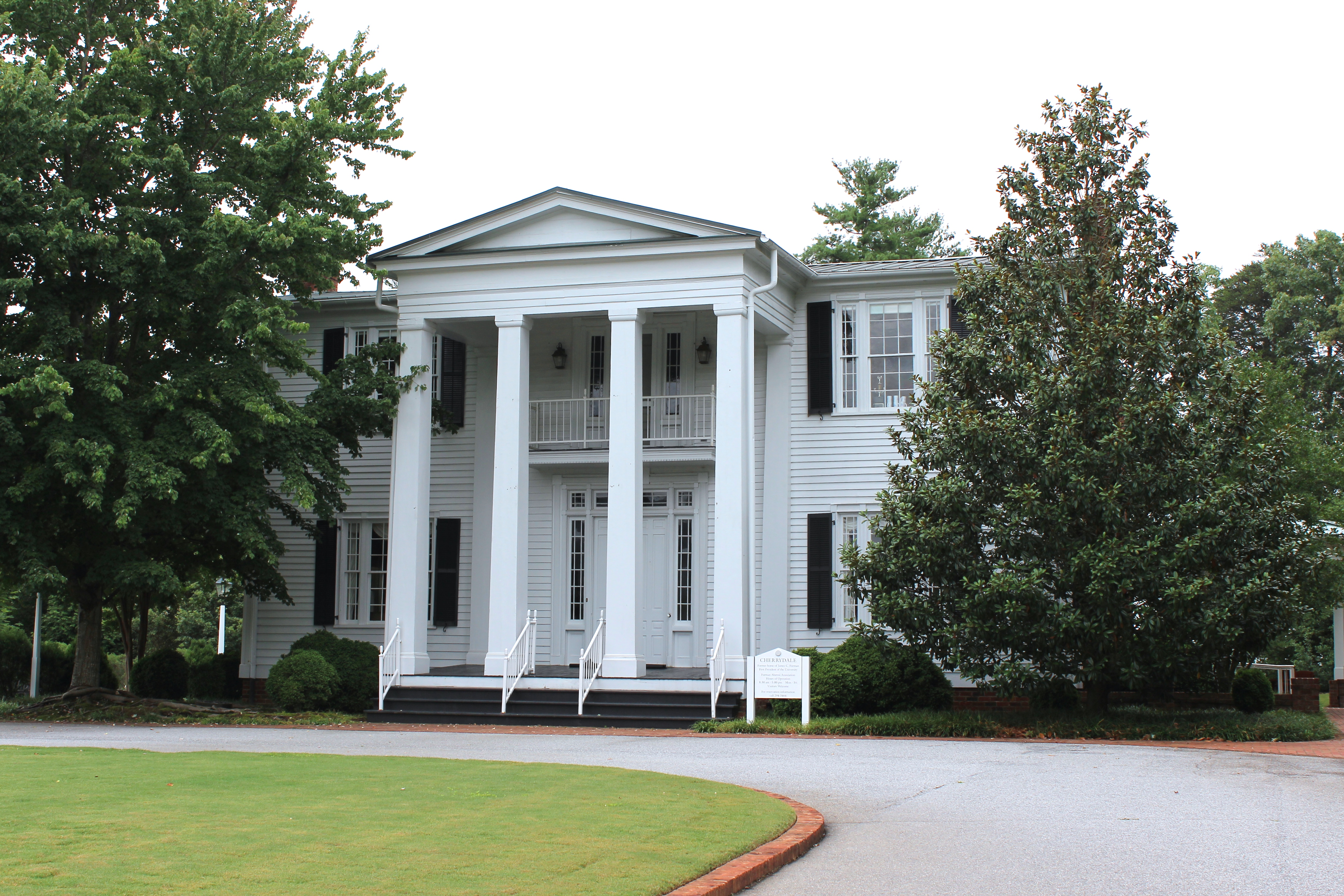 Cherrydale, a historic house on the campus of Furman University, Greenville, South Carolina